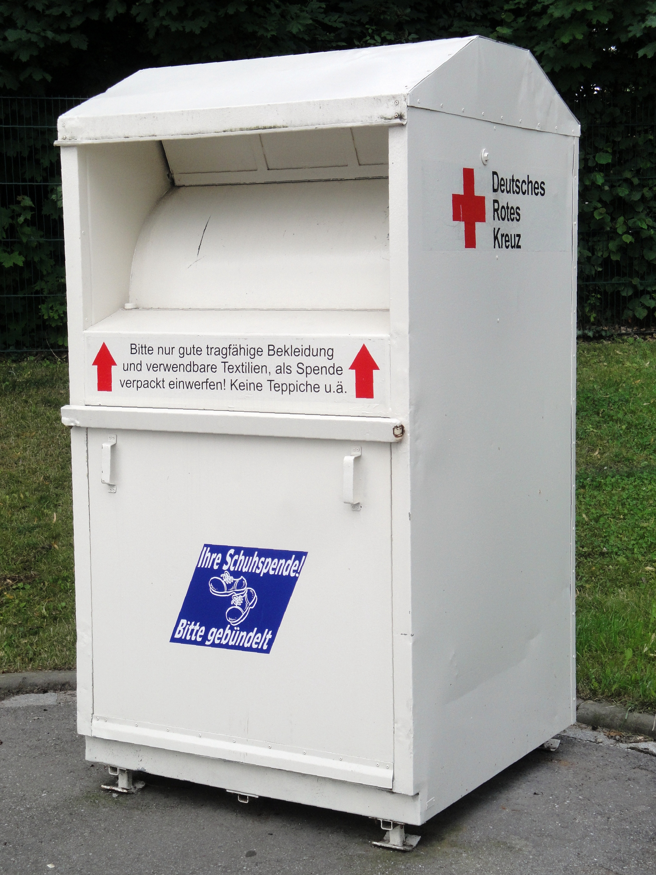 Textiles gathering box in Naumburg (Saale), Germany